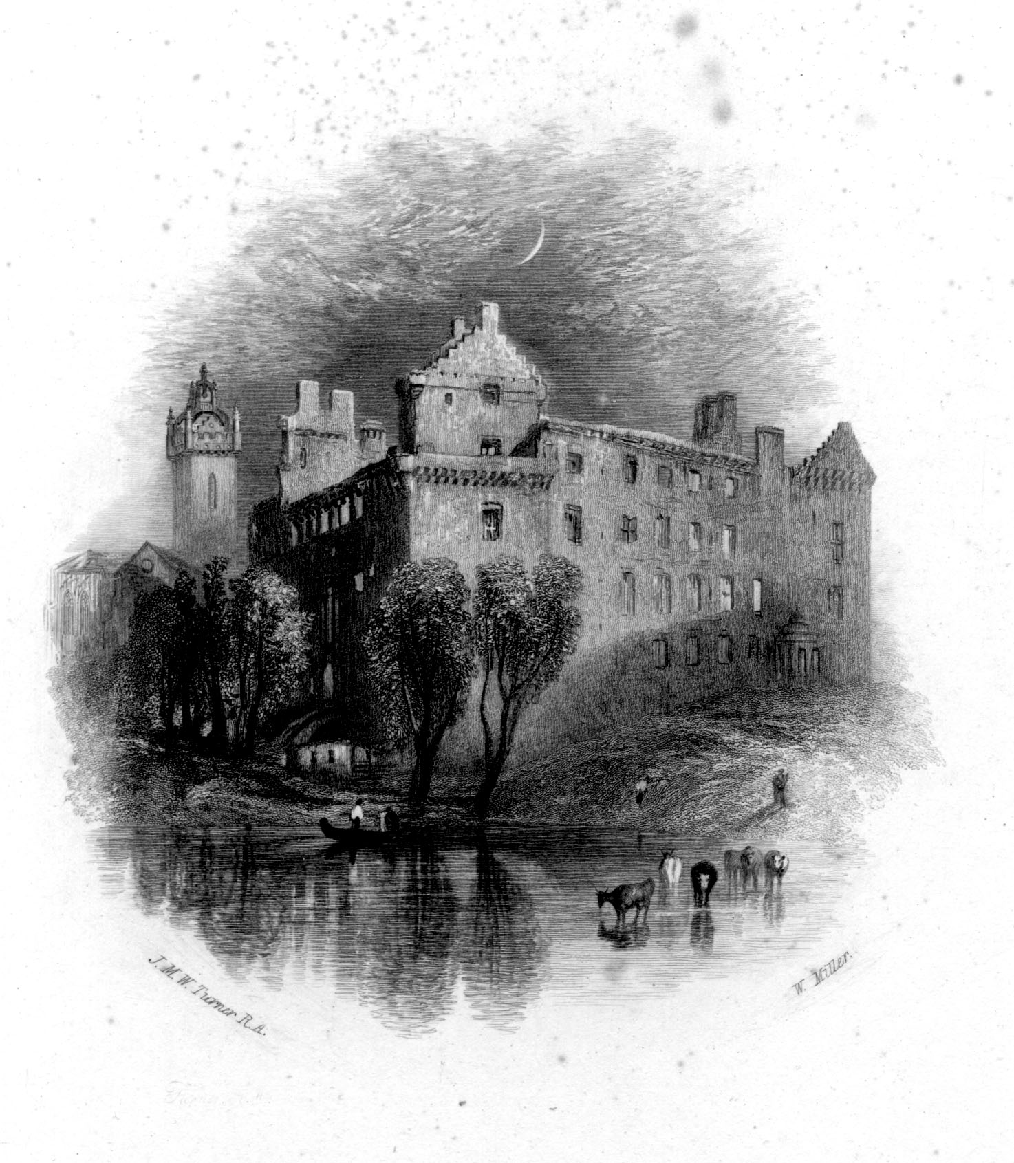 Linlithgow (Rawlinson 548) proof engraving by William Miller after Turner, published in The Miscellaneous Prose Works of Sir Walter Scott, Bart. Embellished with Portraits, Frontispieces, Vignette Titles and Maps. The Designs of the Landscapes from Real Scenes by J.M.W. Turner, R.A.. Edinburgh: Robert Cadell, Edinburgh; Whitaker, Arnot, and Company, London; John Cumming, Dublin 1834 - 1836